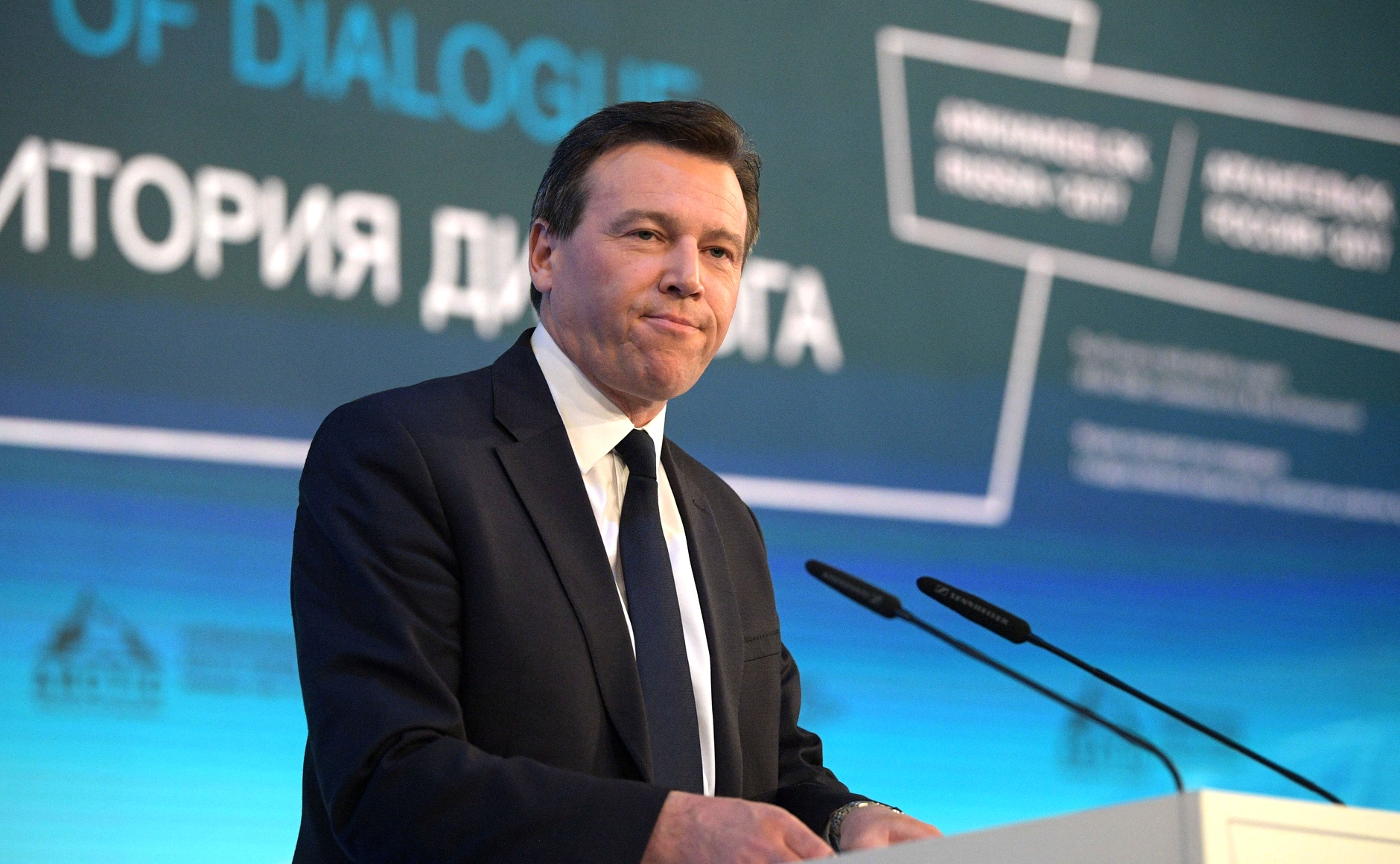 The ‘Arctic: Territory of Dialogue’ (4th) International Arctic Forum. CNBC TV anchor Geoff Cutmore, moderator of the plenary session.